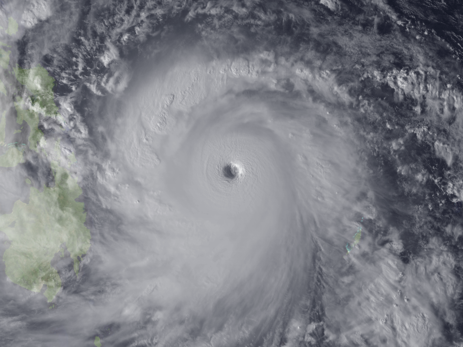 Typhoon Haiyan, a strong and dangerous tropical cyclone, was approaching the Philippines from the east. This image was taken by the Japan Meteorological Agency’s MTSAT-1R at 0630Z on November 7, 2013.